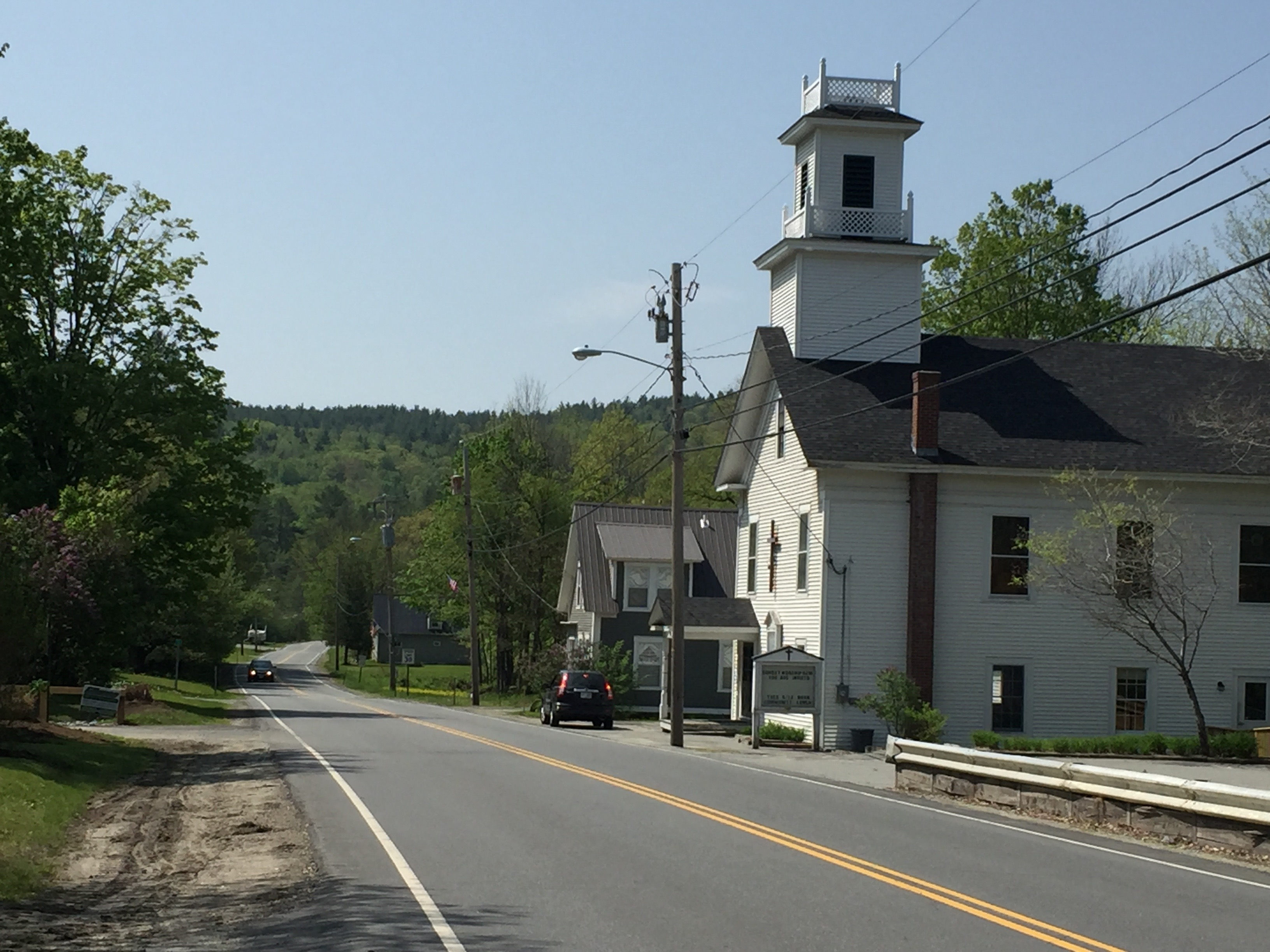 Methodist Church in center of Grantham, New Hampshire, May 2016